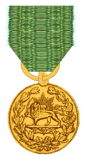 Medal of the Order of the Sun (Order of Aftab) of Persia. Military Division.